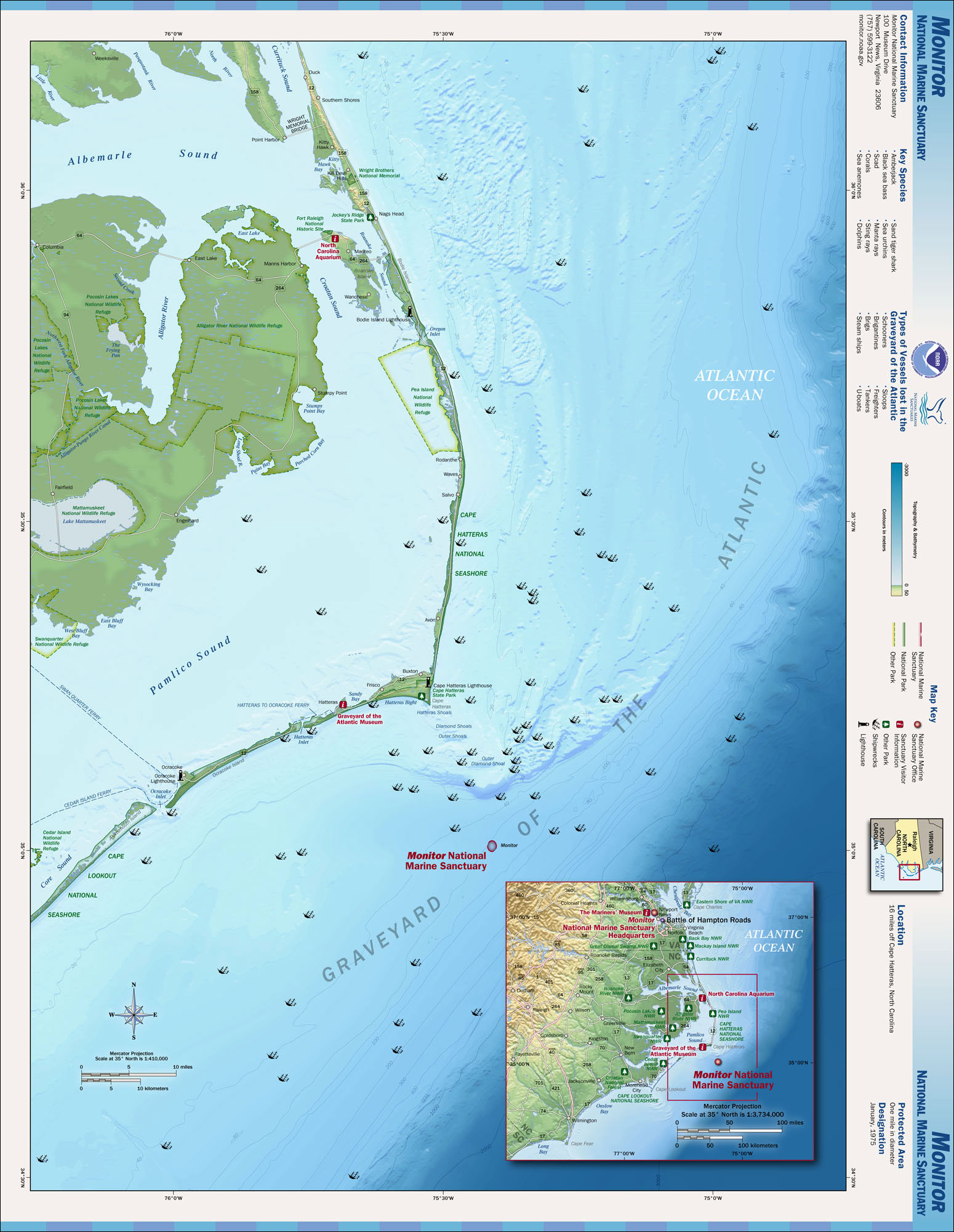 NOAA map of the Outer Banks area, seashore/barrier islands of North Carolina